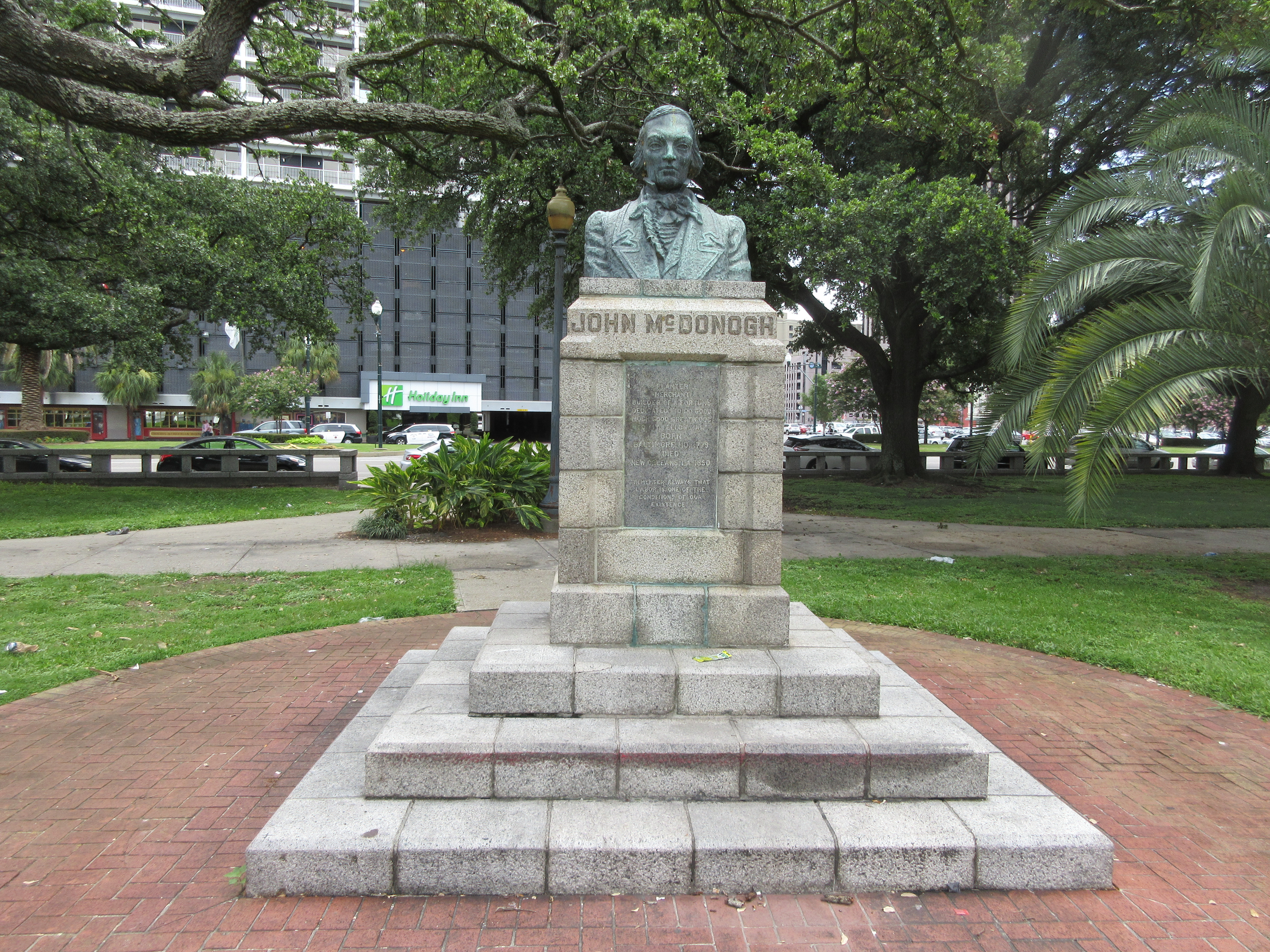 Duncan Plaza, New Orleans, June 2017. 1930 bust of John McDonogh, public school philanthropist. Photo by Infrogmation of New Orleans, June 2017. Free reuse with author attribution in accordance with any of the licenses listed by the author/photographer. Reuse without photo attribution is a violation of copyright.